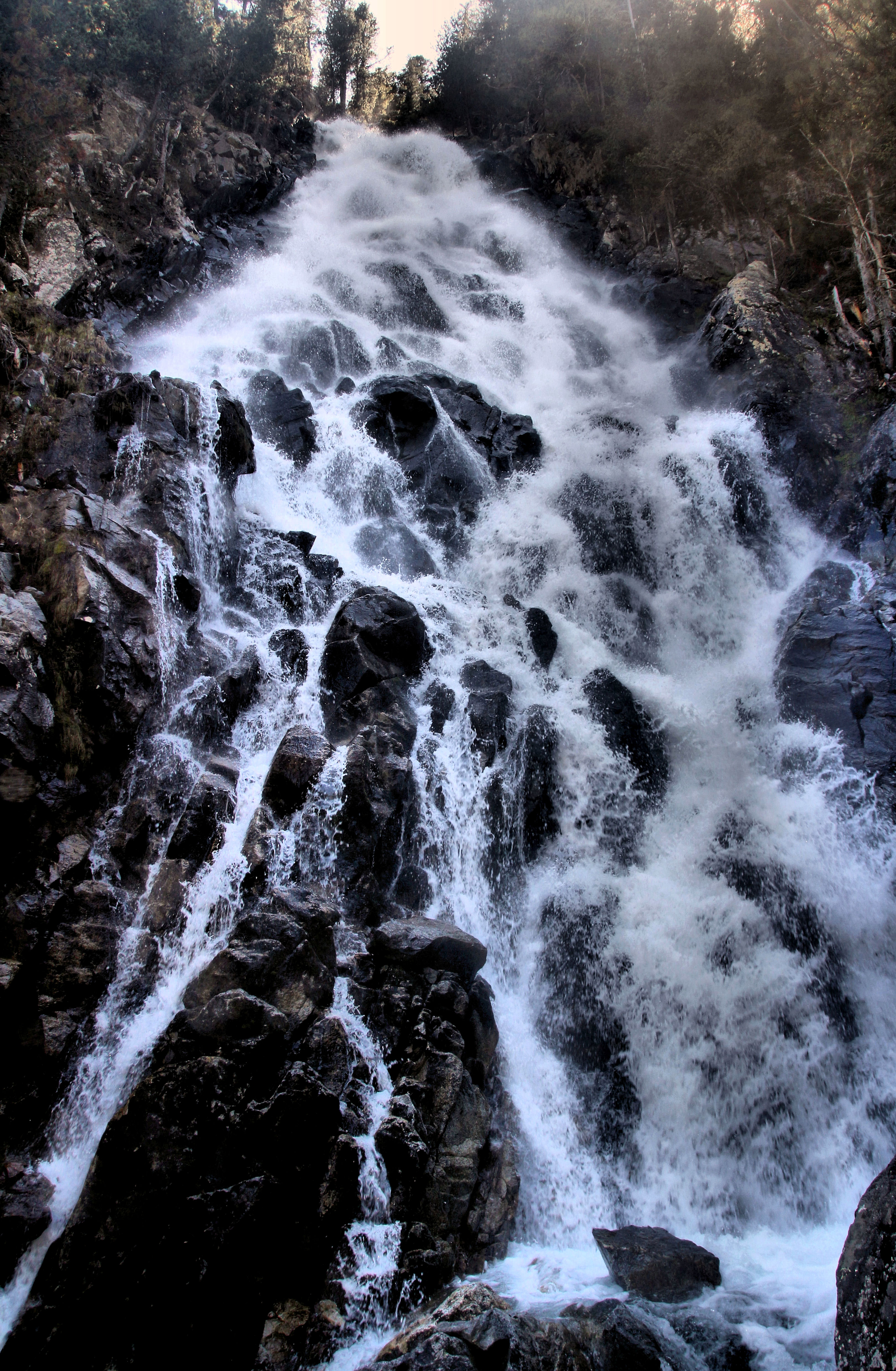 The cascade of Gerber is clearly visible from the road that crosses the Port of Bonaigua. The arrangement of the old road that used the Port of Bonaigua carriers and building a viewpoint allows us to easily get closer to the very foot of the waterfall that falls from the Gerber hanging valley. During the last ice age, 40,000 years ago, the glacier descending to the main valley excavated the rock bed much more sharply than in the neighboring valley of Gerber. This explains the existence of this jump. This is a a photo of a natural area in Catalonia, Spain, with id: ES510081